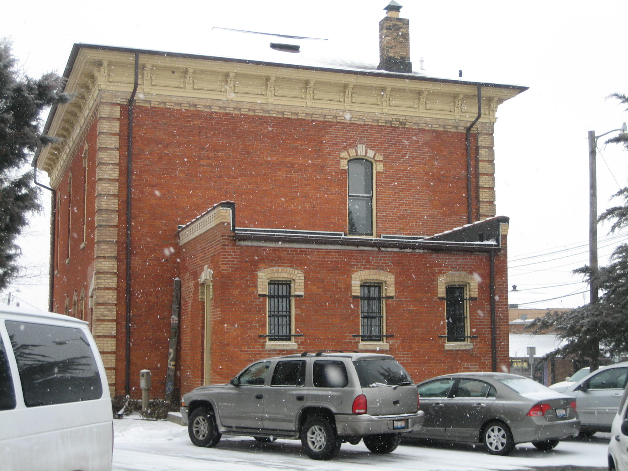 Rochelle, Illinois. City and Town Hall, National Register of Historic Places.